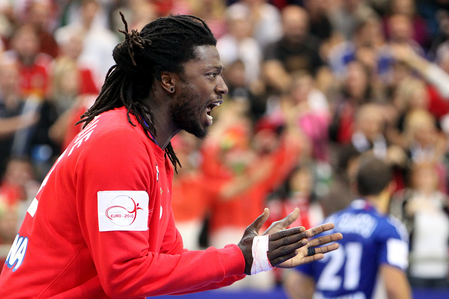 Daouda Karaboué (Montpellier HB), France national handball team